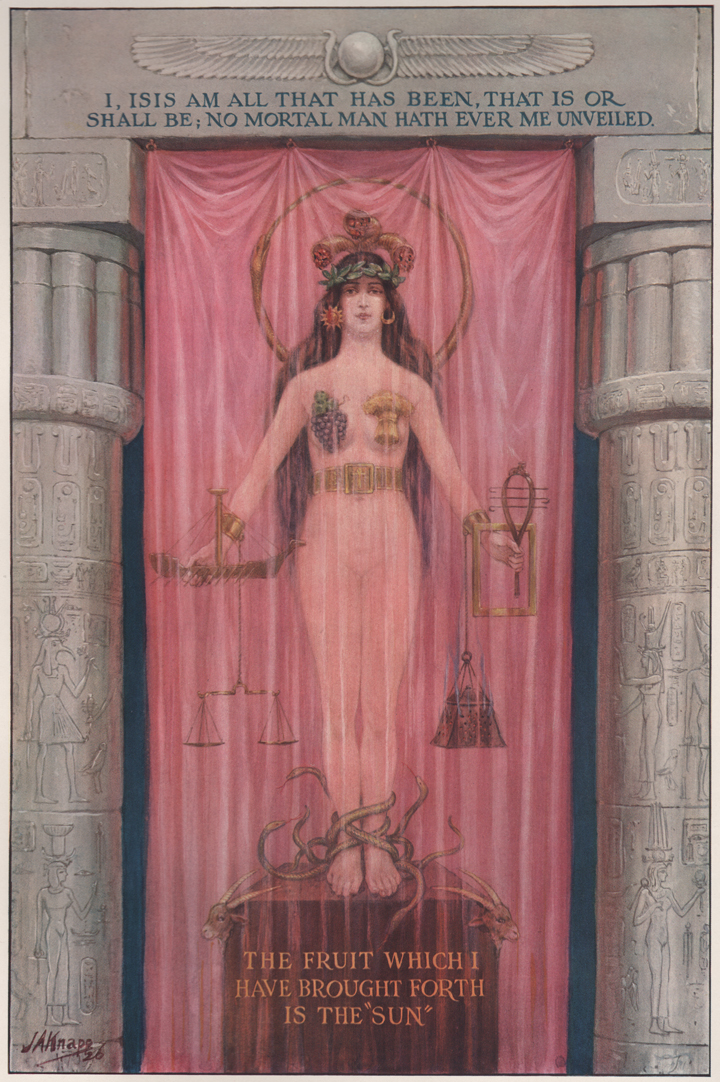 Saitic Isis by J. Augustus Knapp, 1926